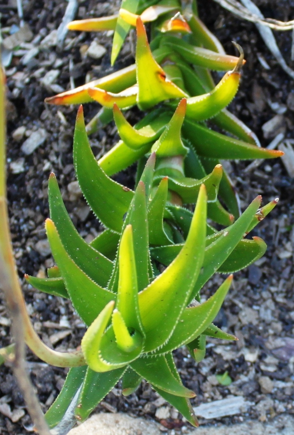 Detailed view of aloe decumbens rosette. South Africa.